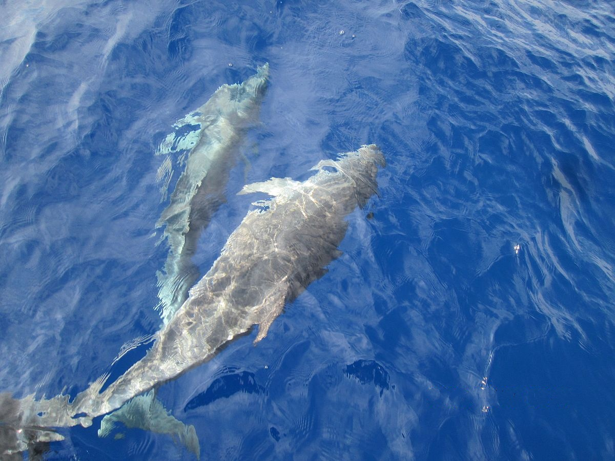 Dolphins south of Syracuse, Sicily, Italy